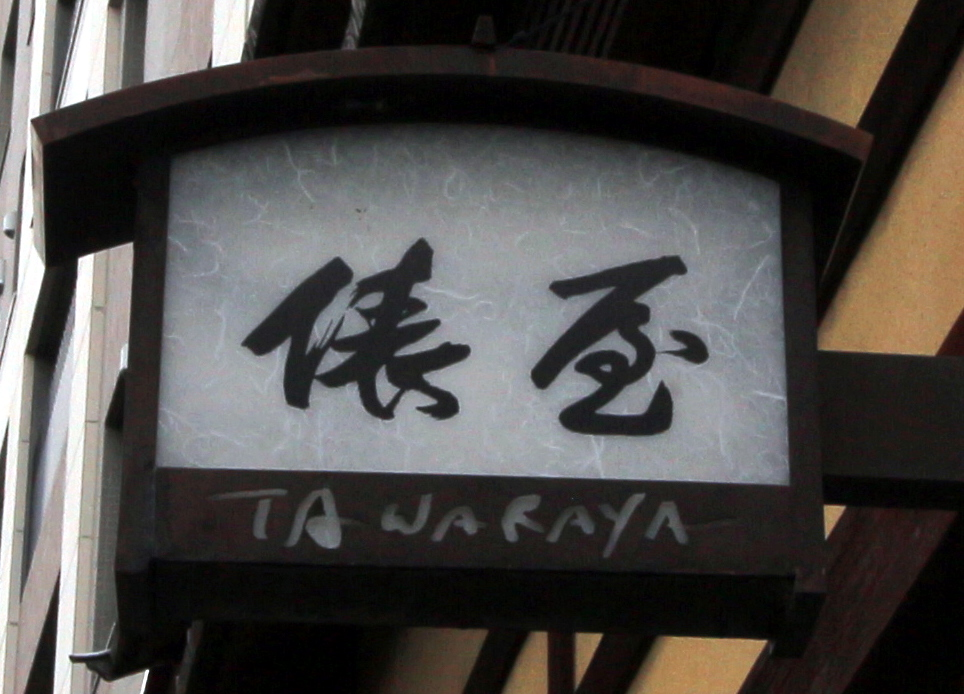 Tawaraya Ryokan in Kyoto, Japan.